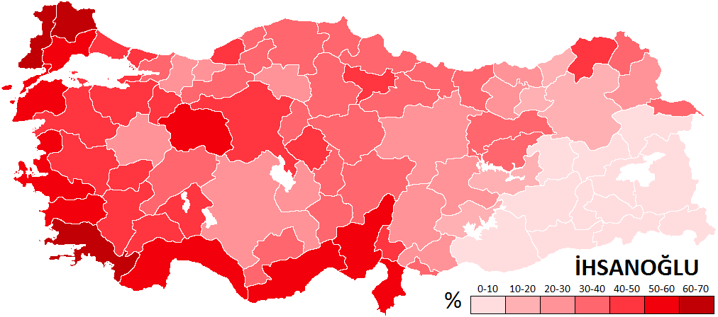 Results obtained by Ekmeleddin İhsanoğlu in the 2014 Presidential Elections in Turkey, by Provinces